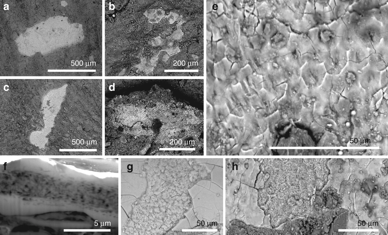 Phosphatised soft tissues in non-avian maniraptoran dinosaurs and a basal bird. a–h Backscatter electron images of tissue in Confuciusornis (IVPP V 13171; a, e, f), Beipiaosaurus (IVPP V STM31-1; b, g), Sinornithosaurus (IVPP V 12811; c, h) and Microraptor (IVPP V 17972A; d). a–d Small irregularly shaped patches of tissue. e Detail of tissue surface showing polygonal texture. f Focused ion beam-milled vertical section through the soft tissue showing internal fibrous layer separating two structureless layers. g, h Fractured oblique section through the soft tissues, showing the layers visible in f.